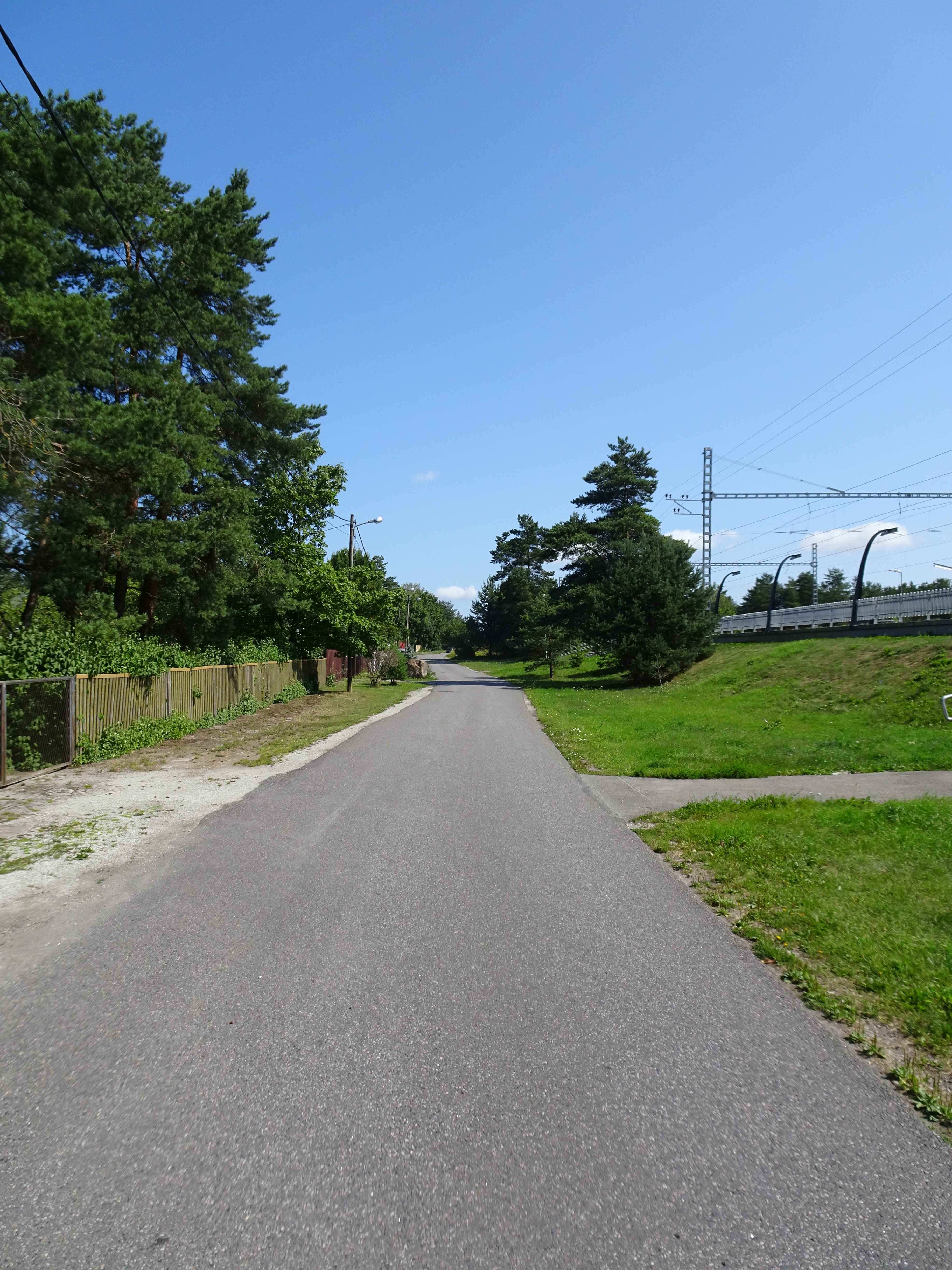 Viisi Street in Tallinn, Estonia